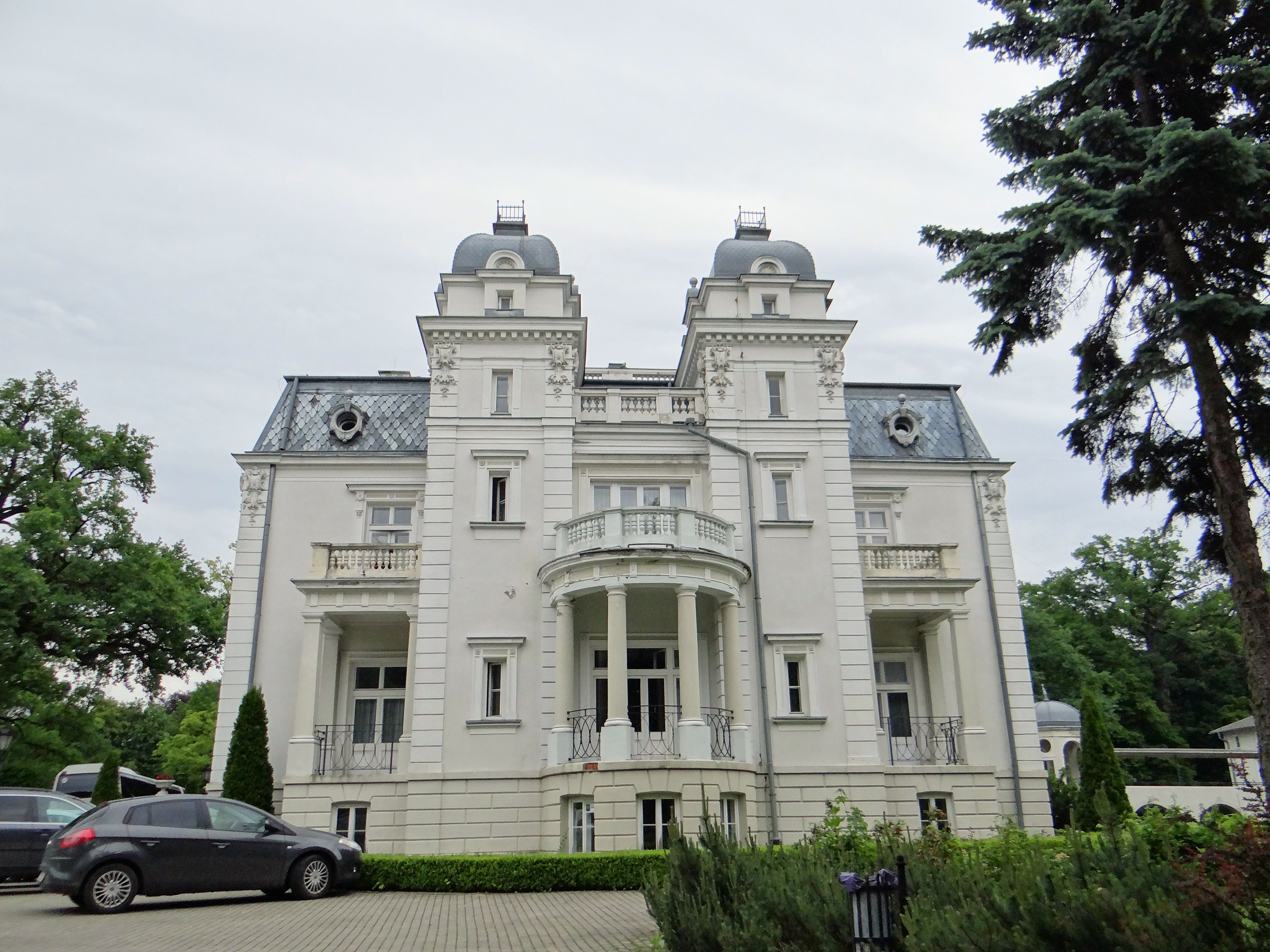 Drucki-Lubecki Palace in Teresin